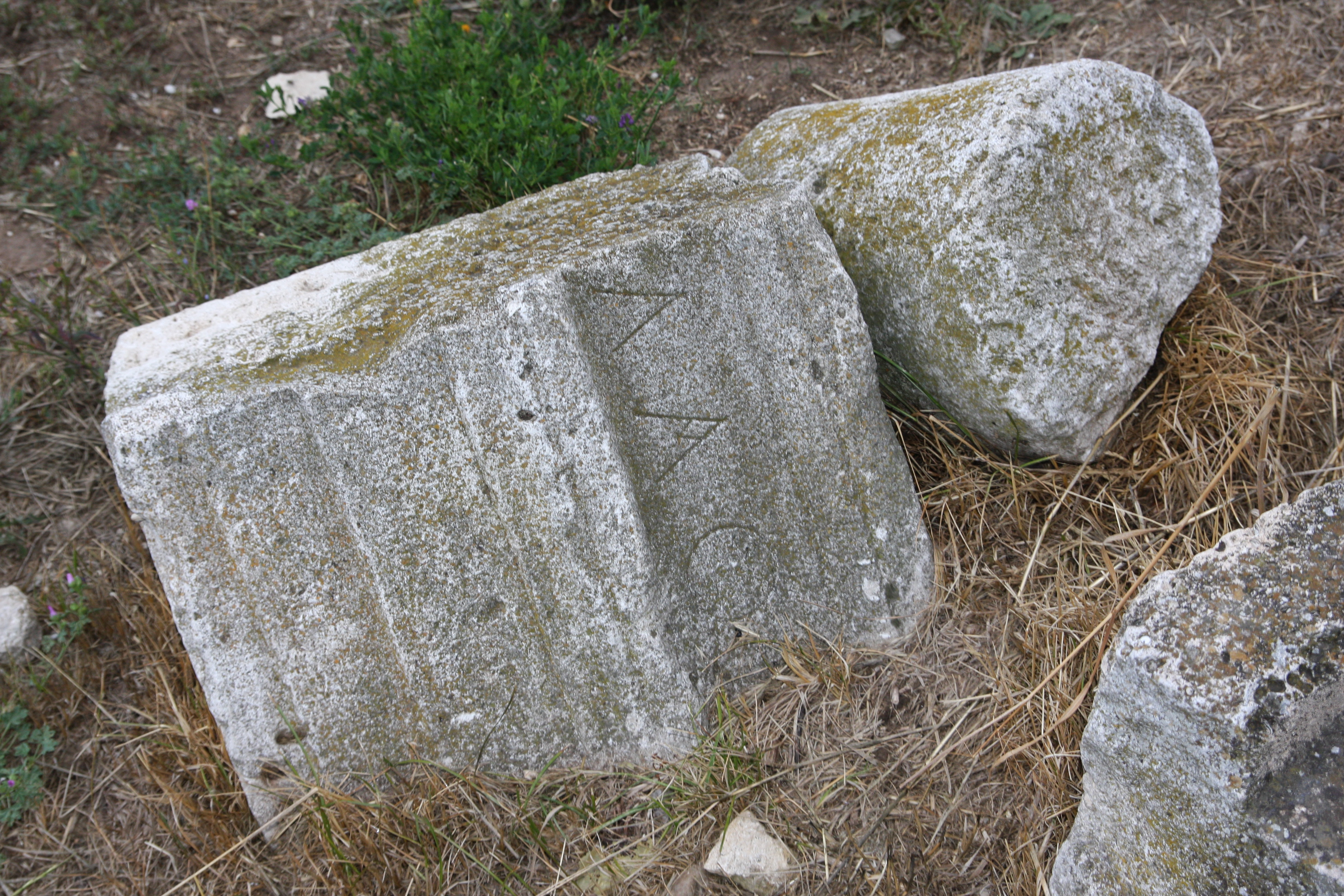 Exposed Artefacts of Callatis in Mangalia